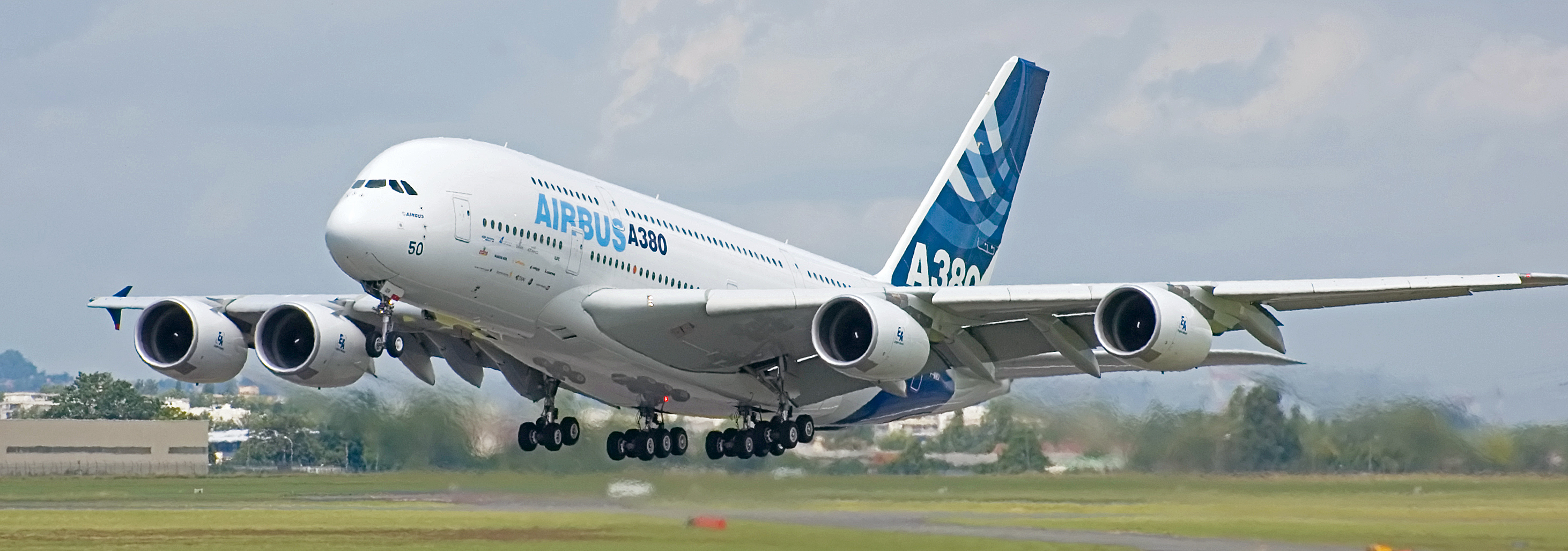 Airbus A380 taking off during Paris Air Show 2007